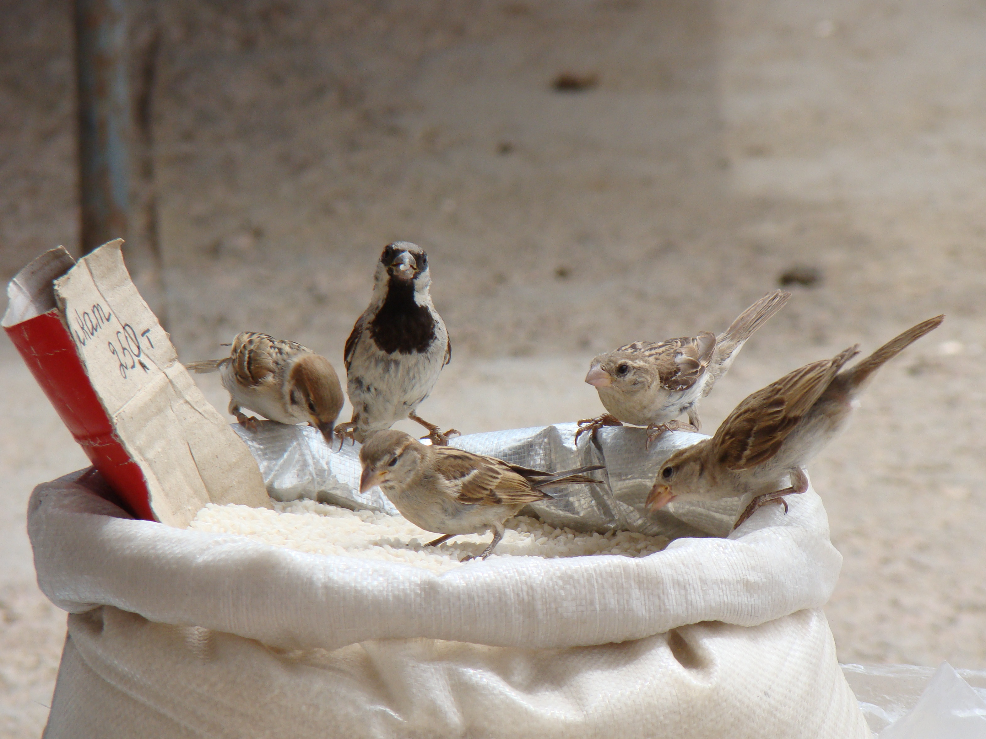 A Eurasian Tree Sparrow (Passer montanus, far left), a male House Sparrow (Passer domesticus, subspecies bactrianus), and three female House Sparrows or Spanish Sparrows (Passer hispaniolensis) feeding in the town of in Baikonur, Kazakhstan